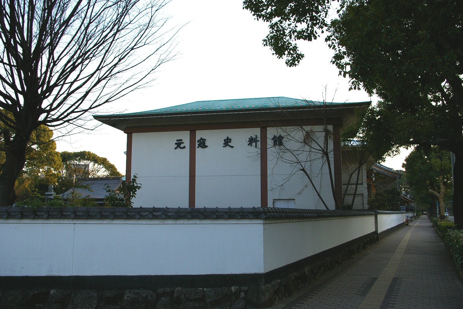 Genko Shirohkan in Fukuoka